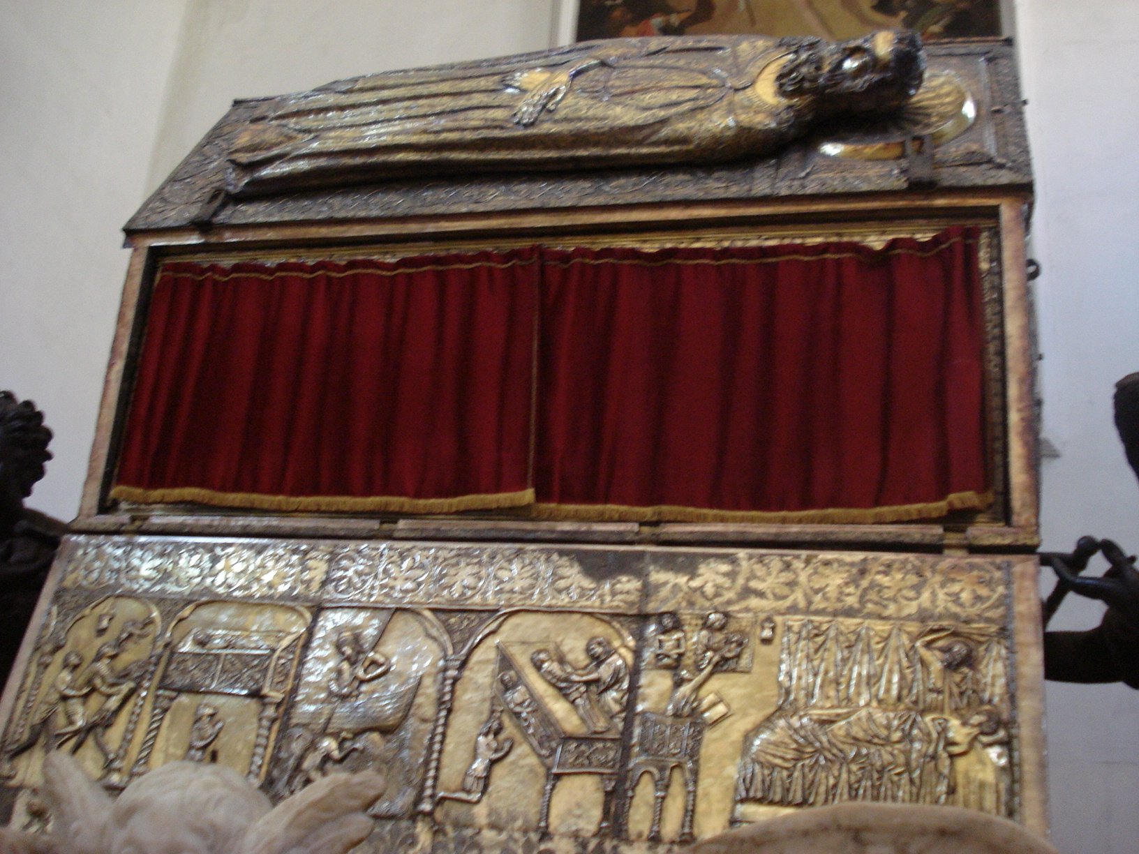 St. Simeon's casket from 1380 in the Church of St. Simeon the Elder, Zadar, Croatia - curtain to preserve St. Simeon's mummified body